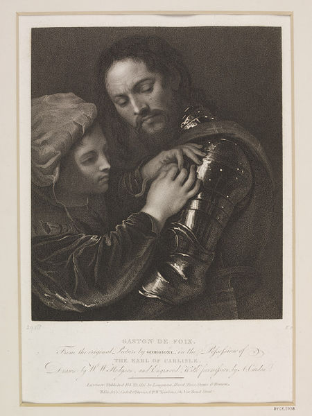 Portrait of Gaston de Foix; From a picture by Giorgione; Print on paper; By Anthony Cardon; English School; 1792-1813.